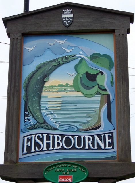 Village sign, Fishbourne The name of the village is mentioned in the Domesday survey as 'Fiseborne' meaning river of fish.